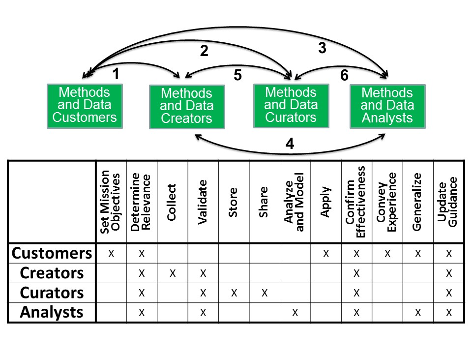 The diverse individuals who engage in nanoinformatics can be viewed as fitting across four categories of roles and responsibilities for nanoinformatics methods and data: • Customers (who need either the methods to create the data, the data itself, or both, and who specify the scientific applications and characterization methods and data needs for their intended purposes), • Creators (who develop relevant and reliable methods and data to meet the needs of customers in the nanotechnology community), • Curators (who maintain and ensure the quality of the methods and associated data), and • Analysts (who develop and apply methods and models for data analysis and interpretation that are consistent with the quality and quantity of the data and that meet customers’ needs). In some instances, the same individuals perform all four roles. More often, many individuals must interact, with their roles and responsibilities extending over significant distances, organizations, and time. Success requires that communication be effective across each of the twelve links (i.e., in both directions across each of the six interfaces) that exist among the various customers, creators, curators, and analysts.